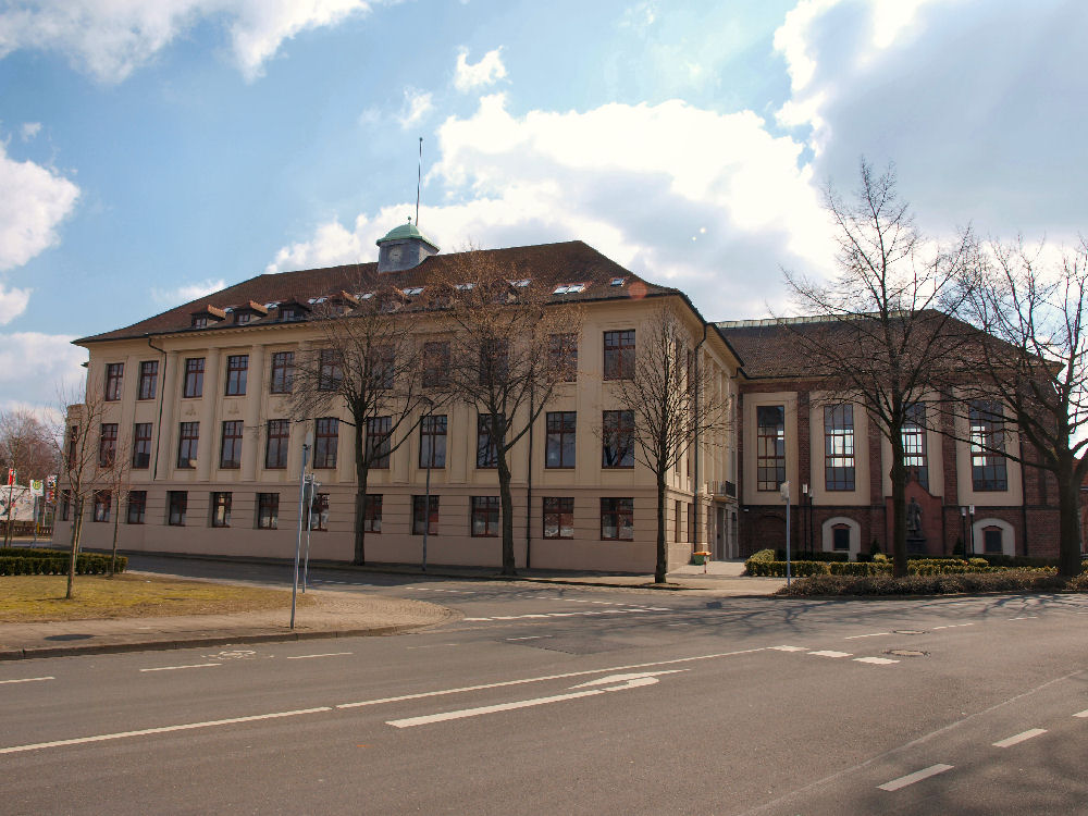 Nordhorn, Nino-Verwaltungsgebäude mit Ballenlager (rechts) und Kriegerdenkmal